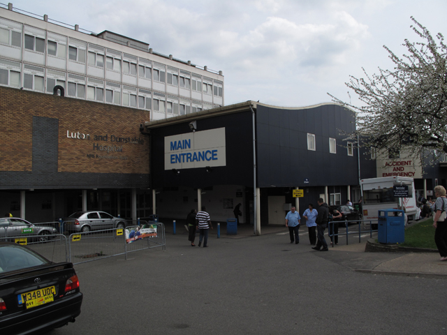 Luton and Dunstable Hospital